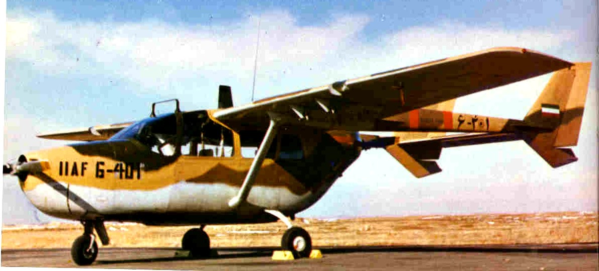 IIAF acquired 12 Cessna O-2A aircraft from the USA in 1972.